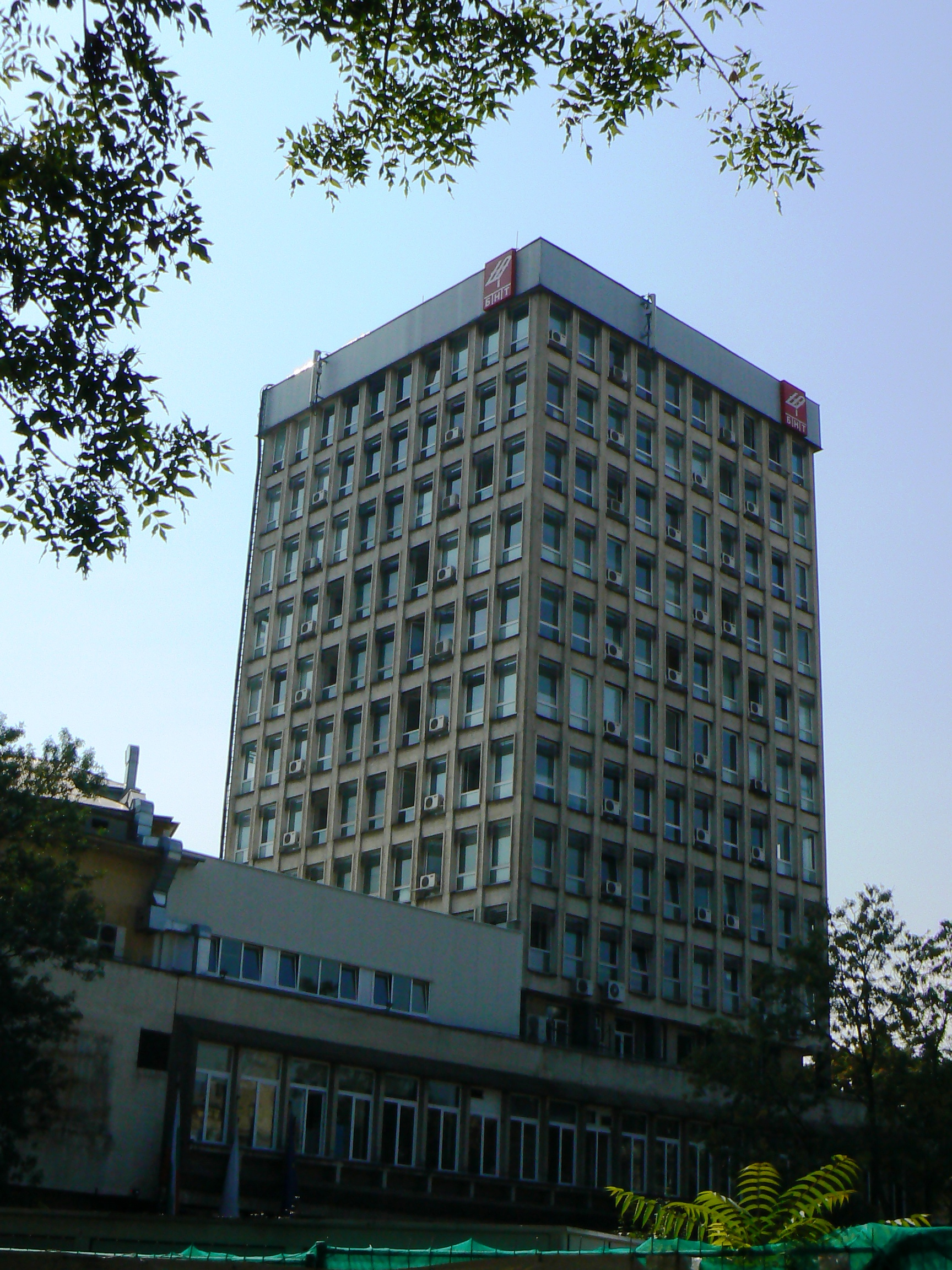 Building of the Bulgarian National Television